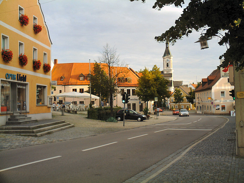 Photo taken by User:Startaq.